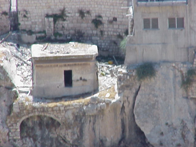 Monolithic strucrure traditionally recognized as tomb of King Solomon's wife - the daughter of Pharaoh